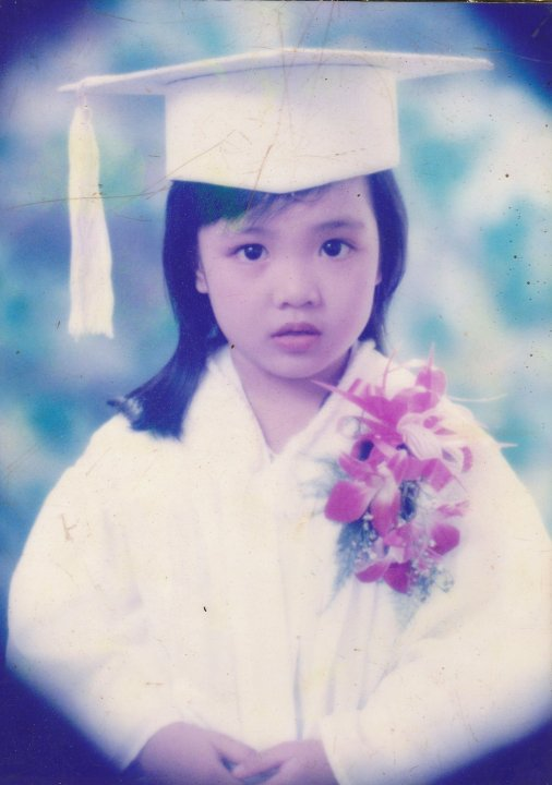 Pre school graduation picture